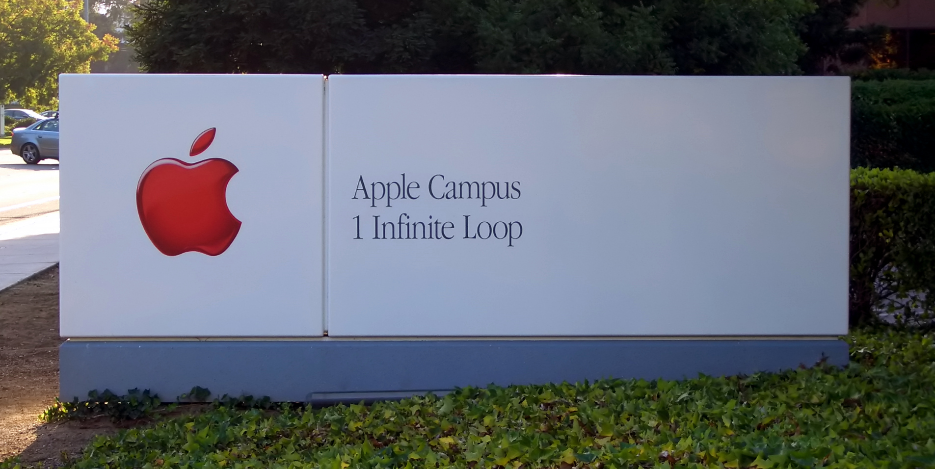 Apple Inc. headquarters sign